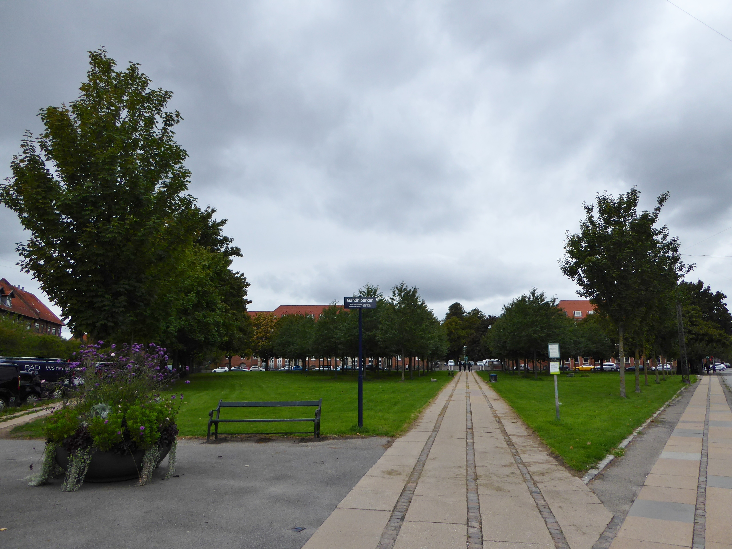 Gandhiparken, until 2016 Gandhis Plæne, is a small park in the Nordvest area in Copenhagen. It is named after the Indian stateman Mahatma Gandhi (1869-1948)